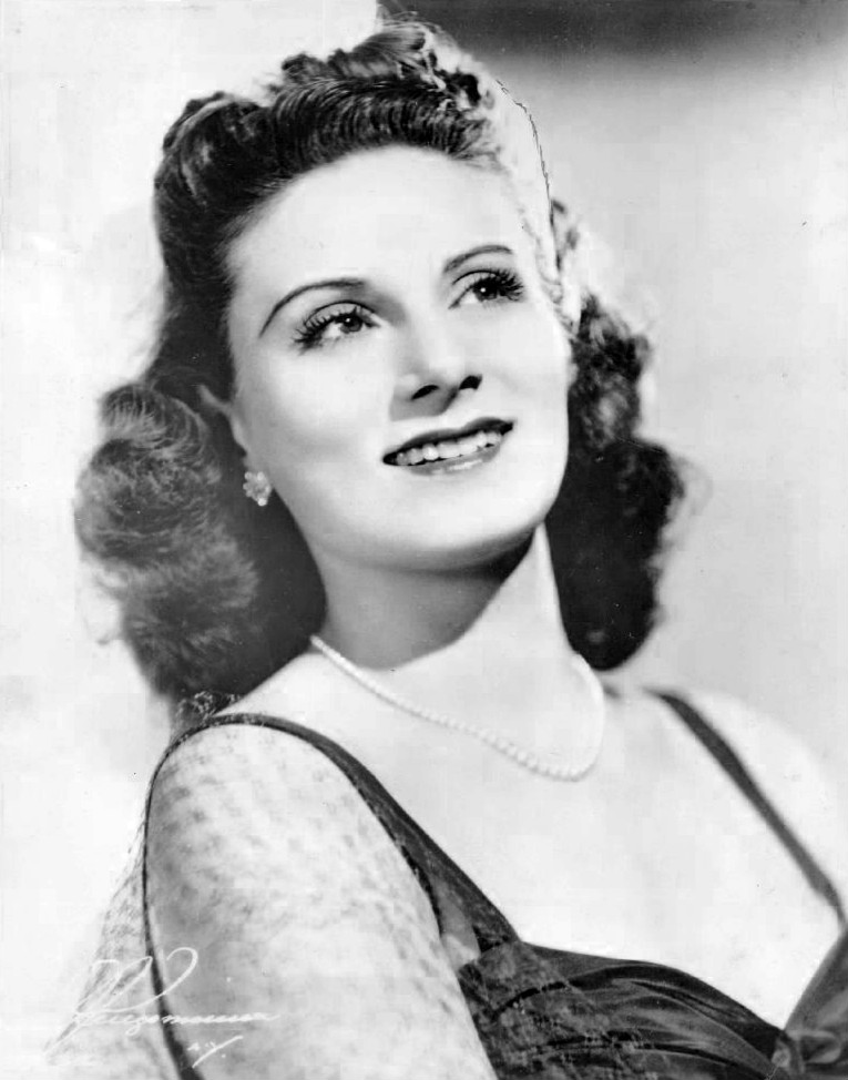 Photo of actress/vocalist Dorothy Sarnoff.